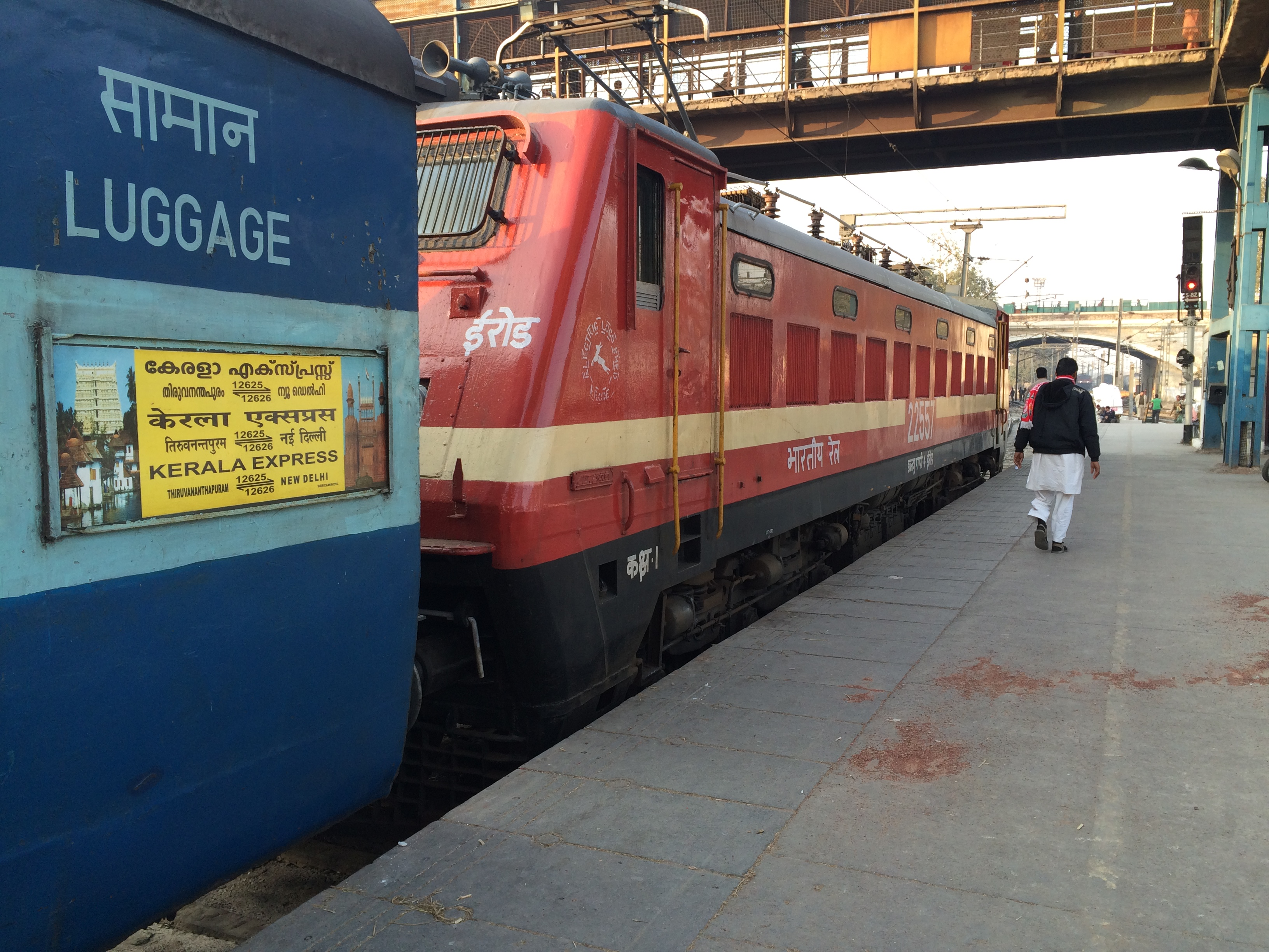 Kerala Express with Erode WAP 4